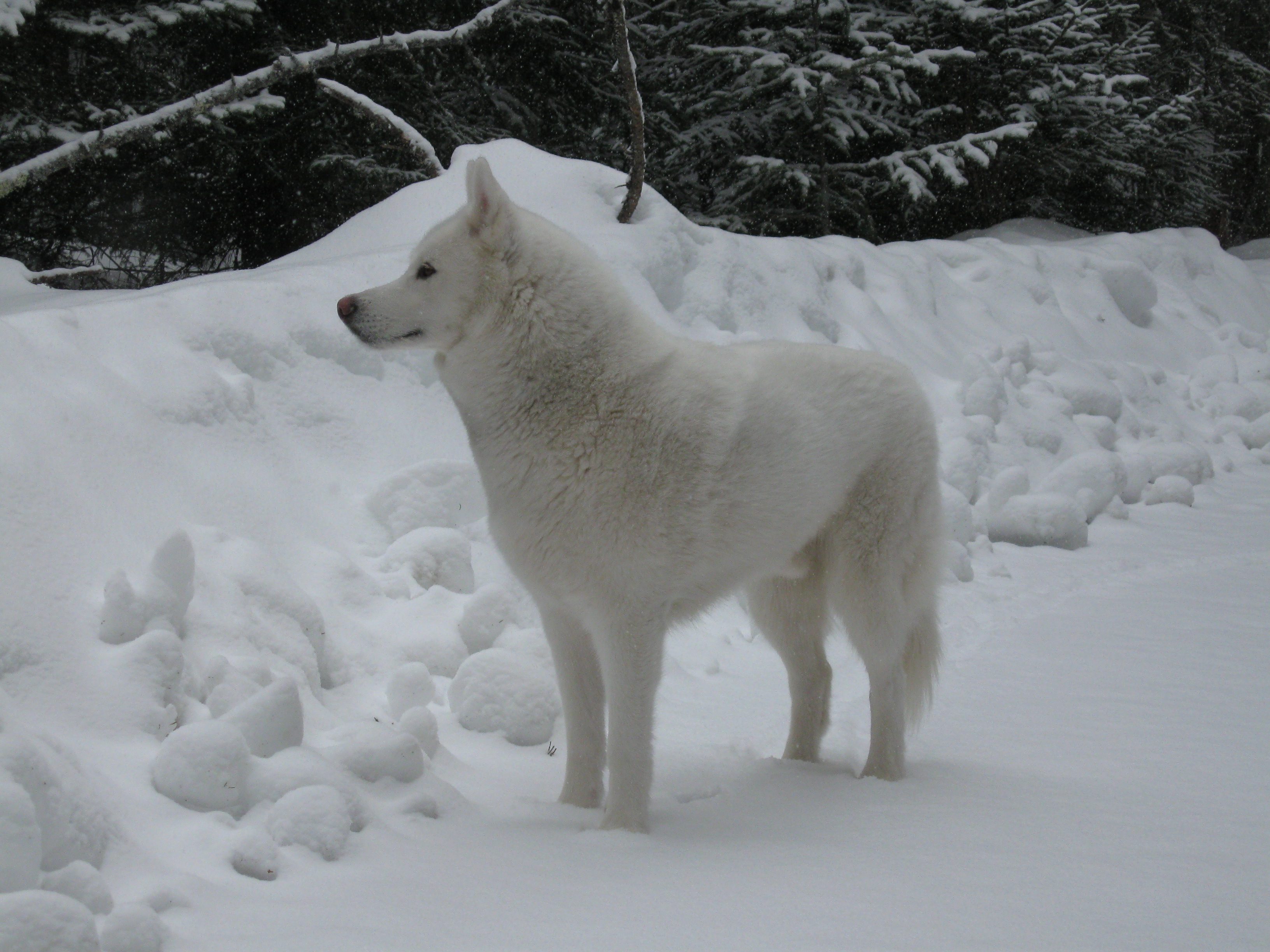 White Siberian Husky in snow